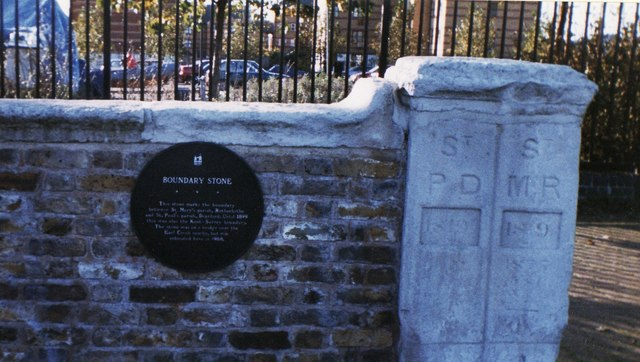 Boundary Stone on the Thames Path The caption reads "This stone marks the boundary between St Mary's parish, Rotherhithe and St Paul's parish, Deptford. Until 1899 this was also the Kent-Surrey boundary. The stone was on a bridge over the Earl Creek nearby, but was relocated here in 1988."